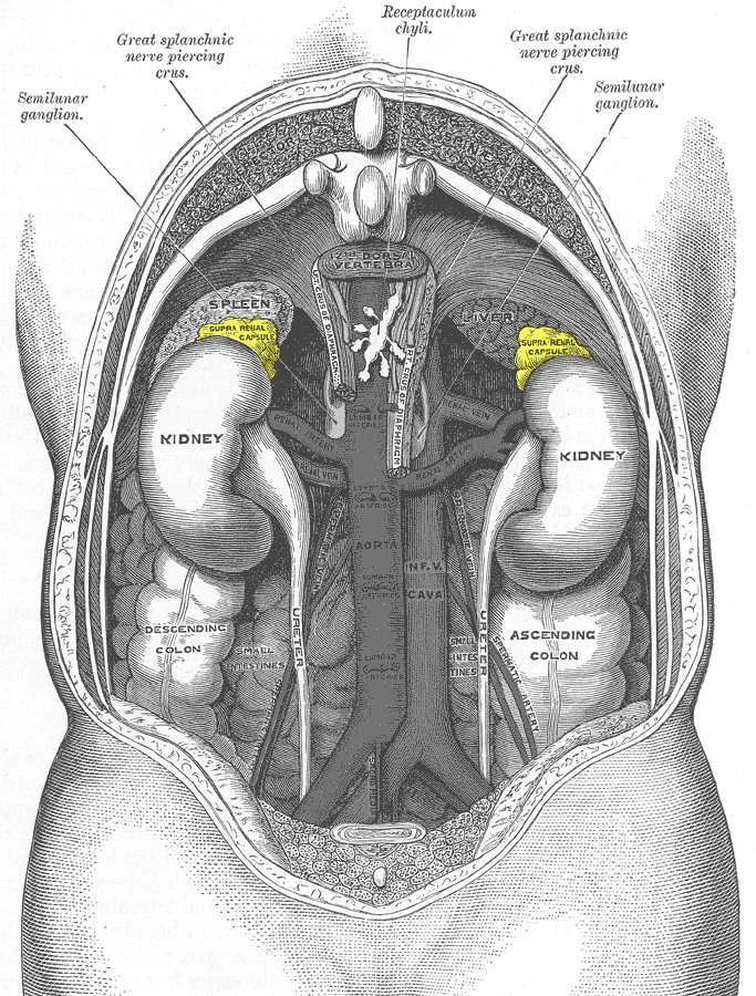 The relations of the viscera and large vessels of the abdomen. (Seen from behind, the last thoracic vertebra being well raised.) The adrenal glands are colored.